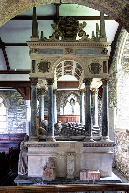 Monument to Sir Thomas Wise (c.1576-1630) of Sydenham in the parish of Marystow, Devon. St Mary's Church, Marystow. He married Margery Stafford (born 1583), daughter and sole heiress of Robert Stafford (died 1604) of Stafford (alias Stoford) in the parish of Dolton in Devon. The surname of the Stafford family had anciently been Kelloway.